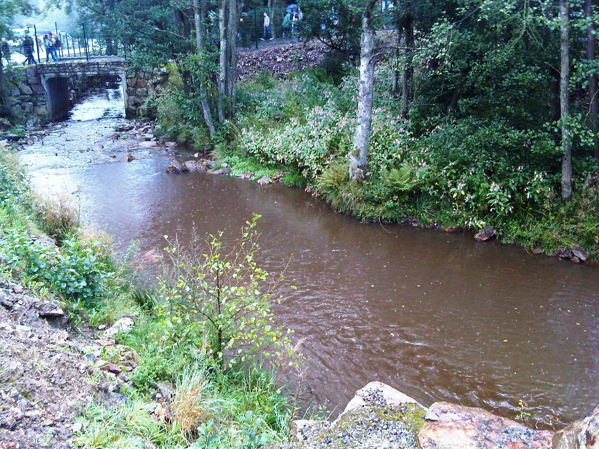 The Eau Rouge river as it passes the interior of the Circuit des Ardennes at Francorchamps